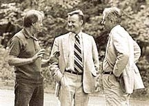 President Carter, Zbigniew Brzezinski, and Cyrus Vance at Camp David in 1977 (source) Quote from source "Left to right: President Jimmy Carter, Zbigniew Brzezinski and Cyrus Vance at Camp David. August 17, 1977. Official White House Photo."